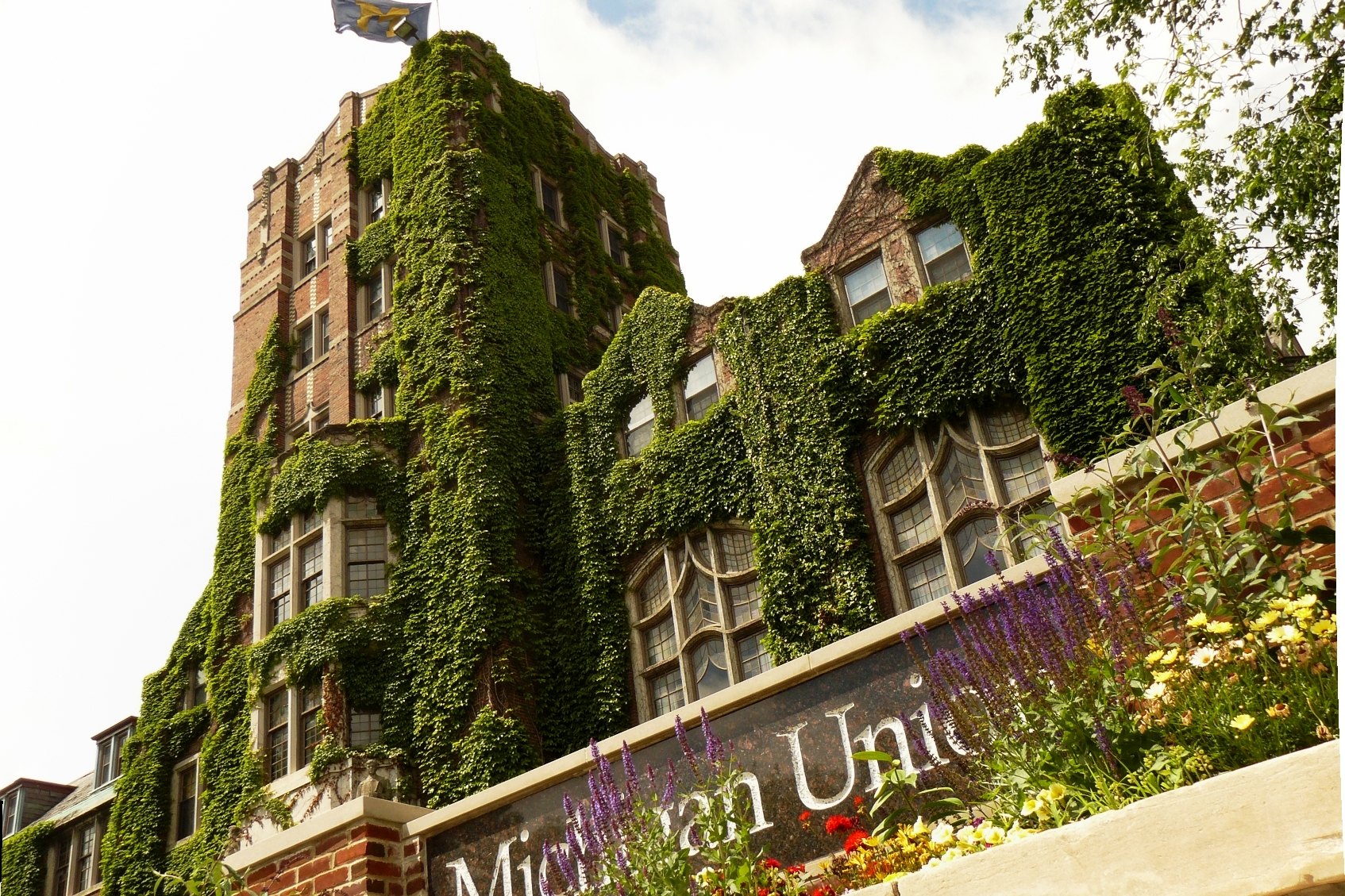 Picture of the University of Michigan Union building in Ann Arbor. Taken in June '09